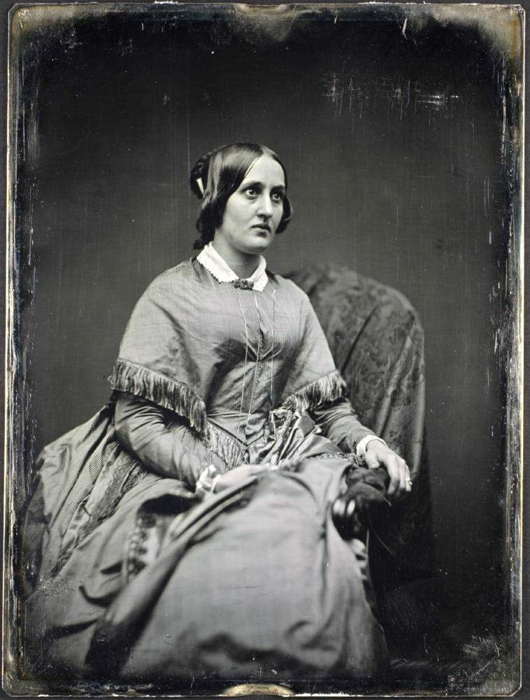 George Eastman House Collection General information about the George Eastman House Photography Collection is available at For information on obtaining reproductions go to